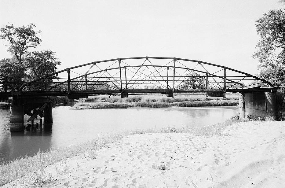 McGilvray Road Bridge No. 4, Van Loon Wildlife Area, La Crosse vicinity (La Crosse County, Wisconsin) cropped This image or media file contains material based on a work of a National Park Service employee, created as part of that person's official duties. As a work of the U.S. federal government, such work is in the public domain in the United States. See the NPS website and NPS copyright policy for more information. Creator: U.S. Department of the Interior, National Park Service, Historic American Engineering Record. Survey number HAER WIS,32-LACR.V,1-C-4 Source: U.S. Library of Congress, Prints and Photographs Division, "Built in America" Collection. Copyright: "The original measured drawings and most of the photographs and data pages in HABS/HAER/HALS were created for the U.S. Government and are considered to be in the public domain." Object location44° 01′ 24″ N, 91° 19′ 14″ W